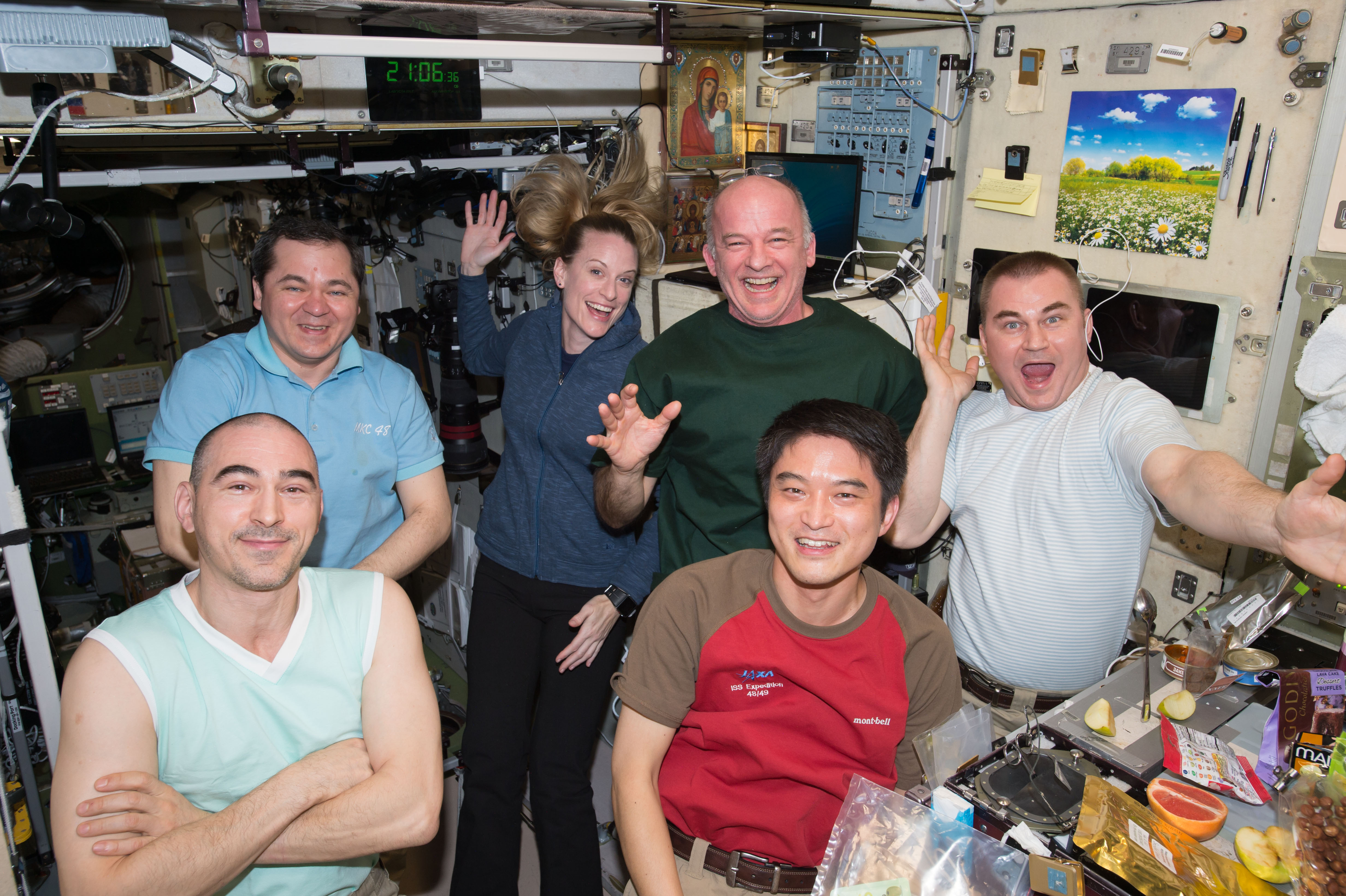 All six Expedition 48 crew members gather in the Zvezda service module sharing a light moment and a meal. From left are Flight Engineers Anatoly Ivanishin, Oleg Skripochka, Kate Rubins, Commander Jeff Williams and Flight Engineers Takuya Onishi and Alexey Ovchinin.